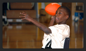 Boy playing American Wheelchair Football during a American Association of Adaptive Sports Programs sanctioned game.